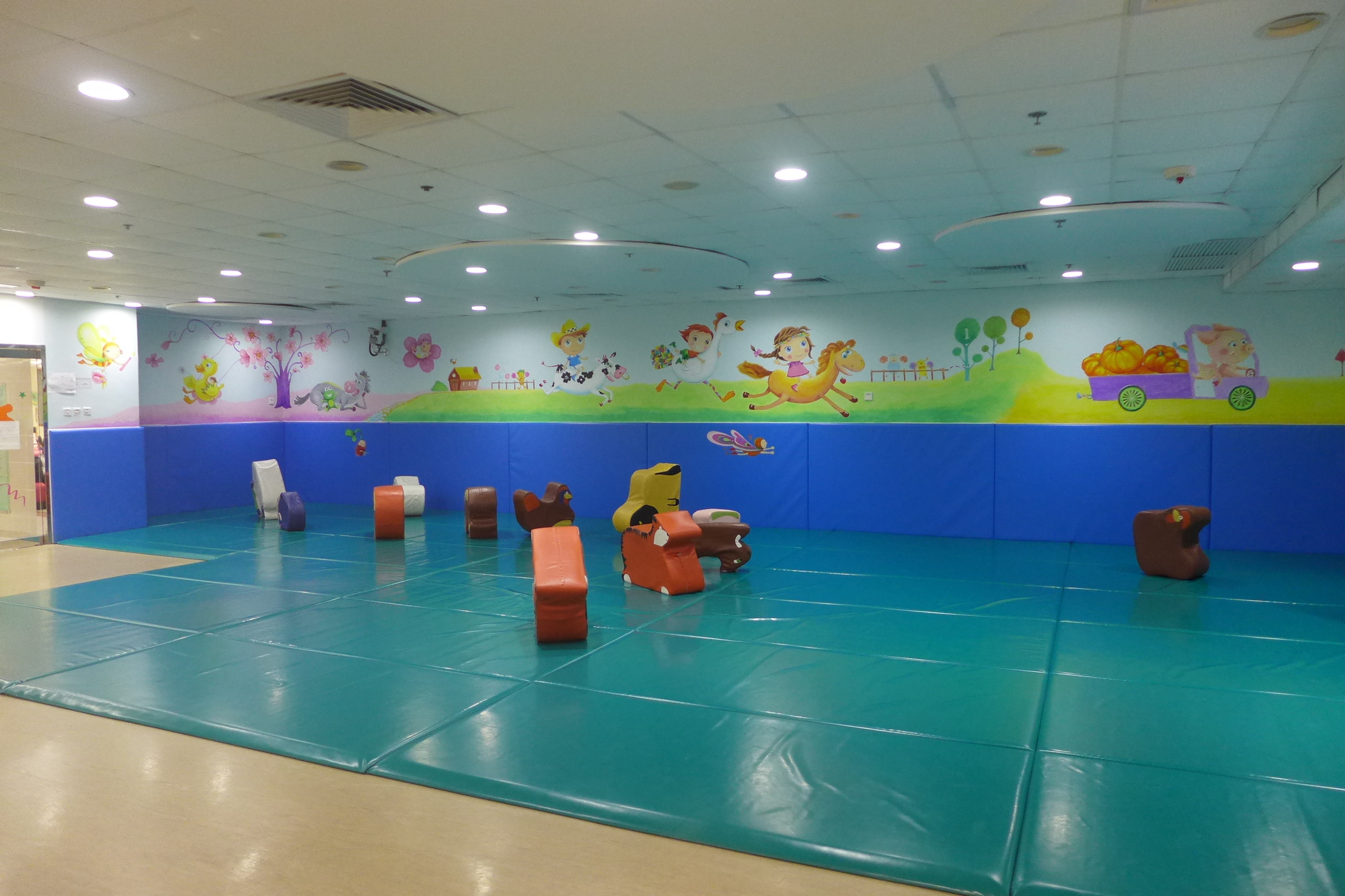 Luen Wo Hui Sports Centre Children Play Room